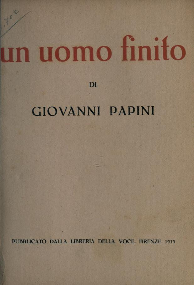 Cover of Un uomo finito cover by Giovanni Papini